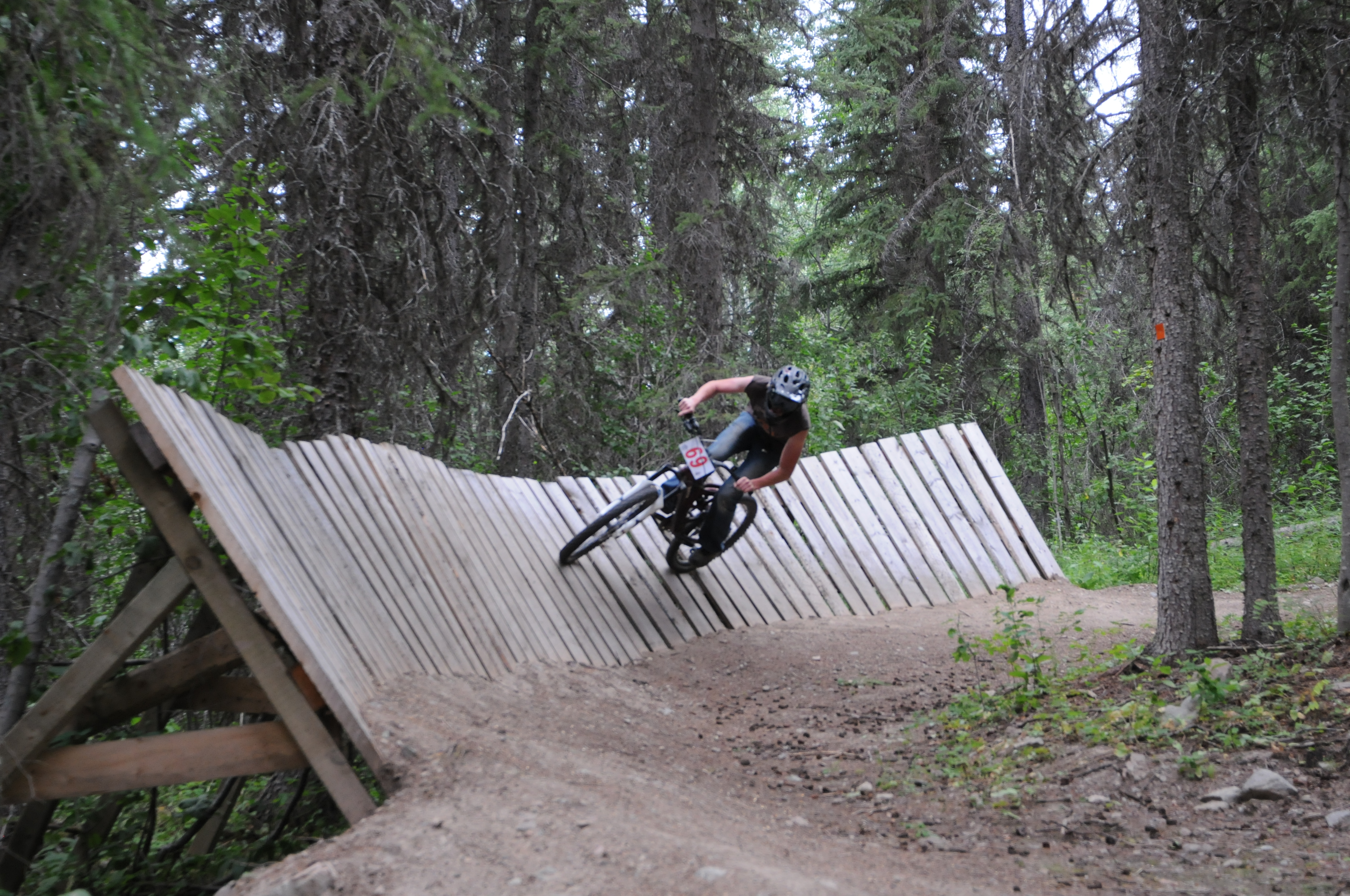 Burns Lake bike trails